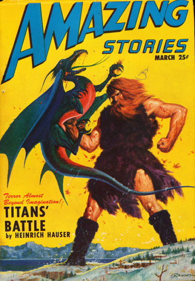 Cover of Amazing Stories, March 1947